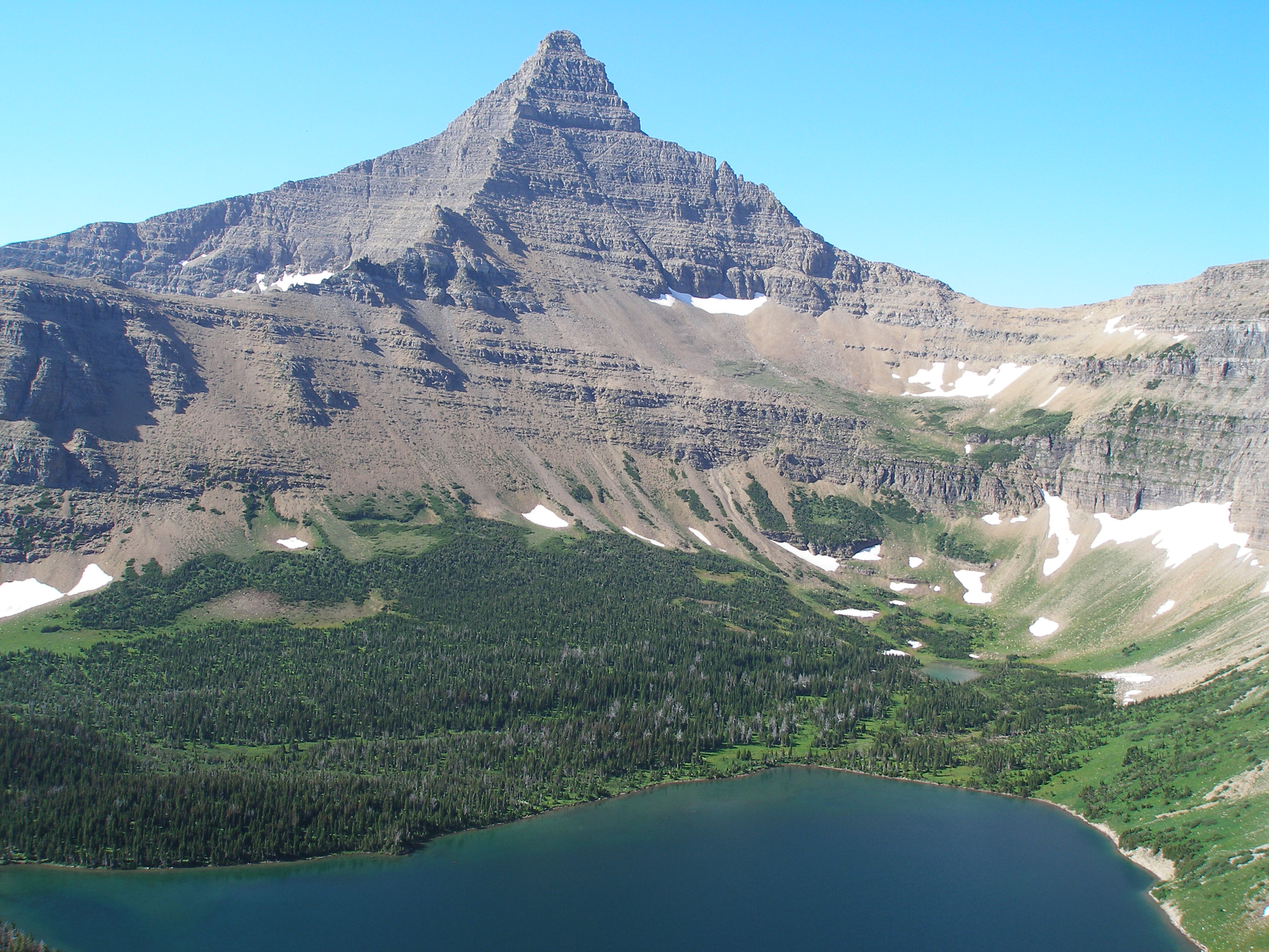 Picture of Oldman Lake in Glacier National Park, MT